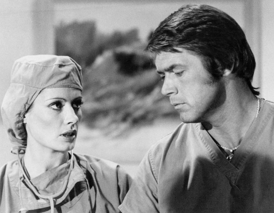 Photo of Chad Everett as Dr. Joe Gannon and guest star Victoria Federova as a Russian surgeon from the television program Medical Center.